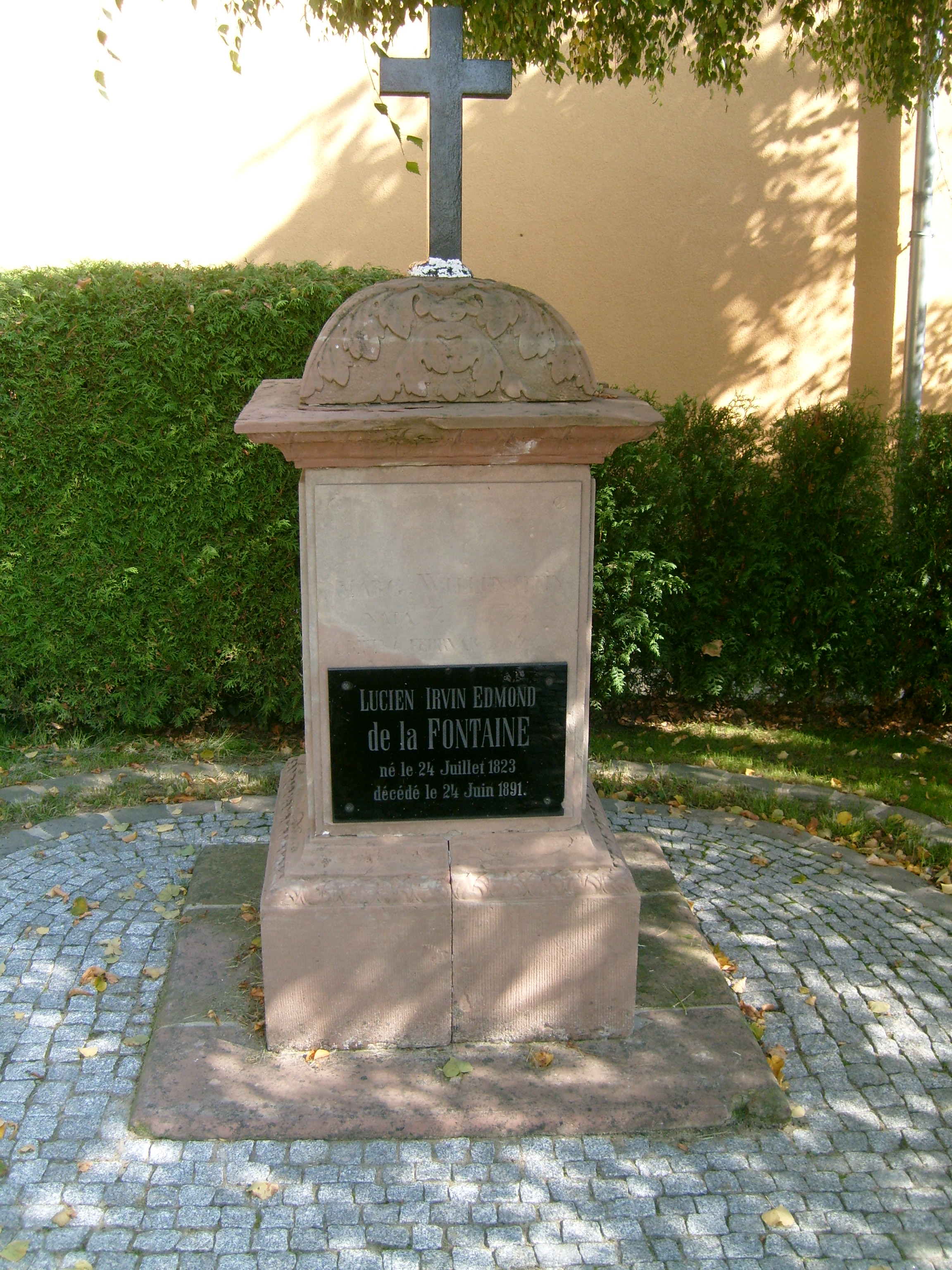 The grave of Edmond de la Fontaine in Stadtbredimus, Luxembourg.